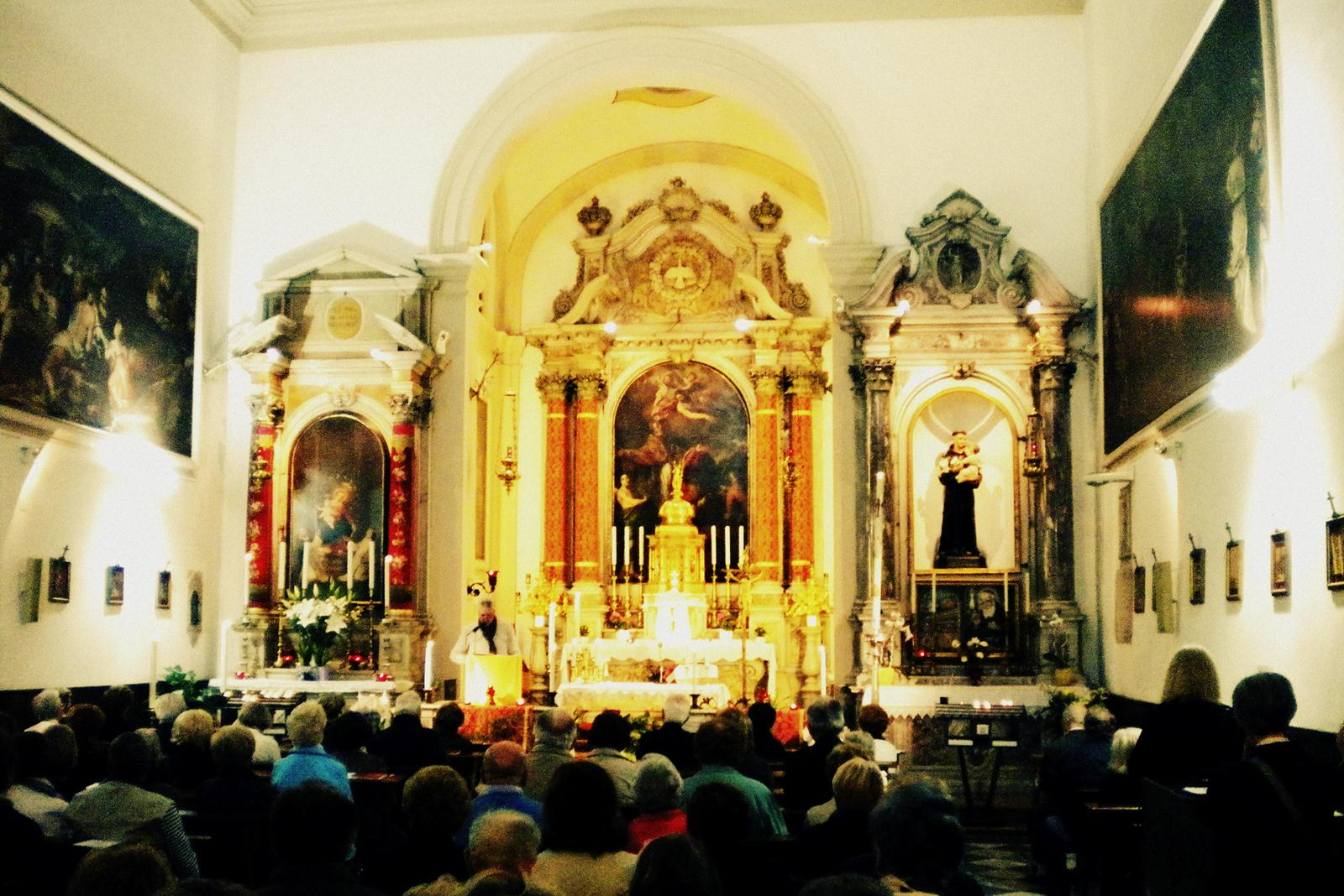 Interno della Chiesa di San Clemente a Padova